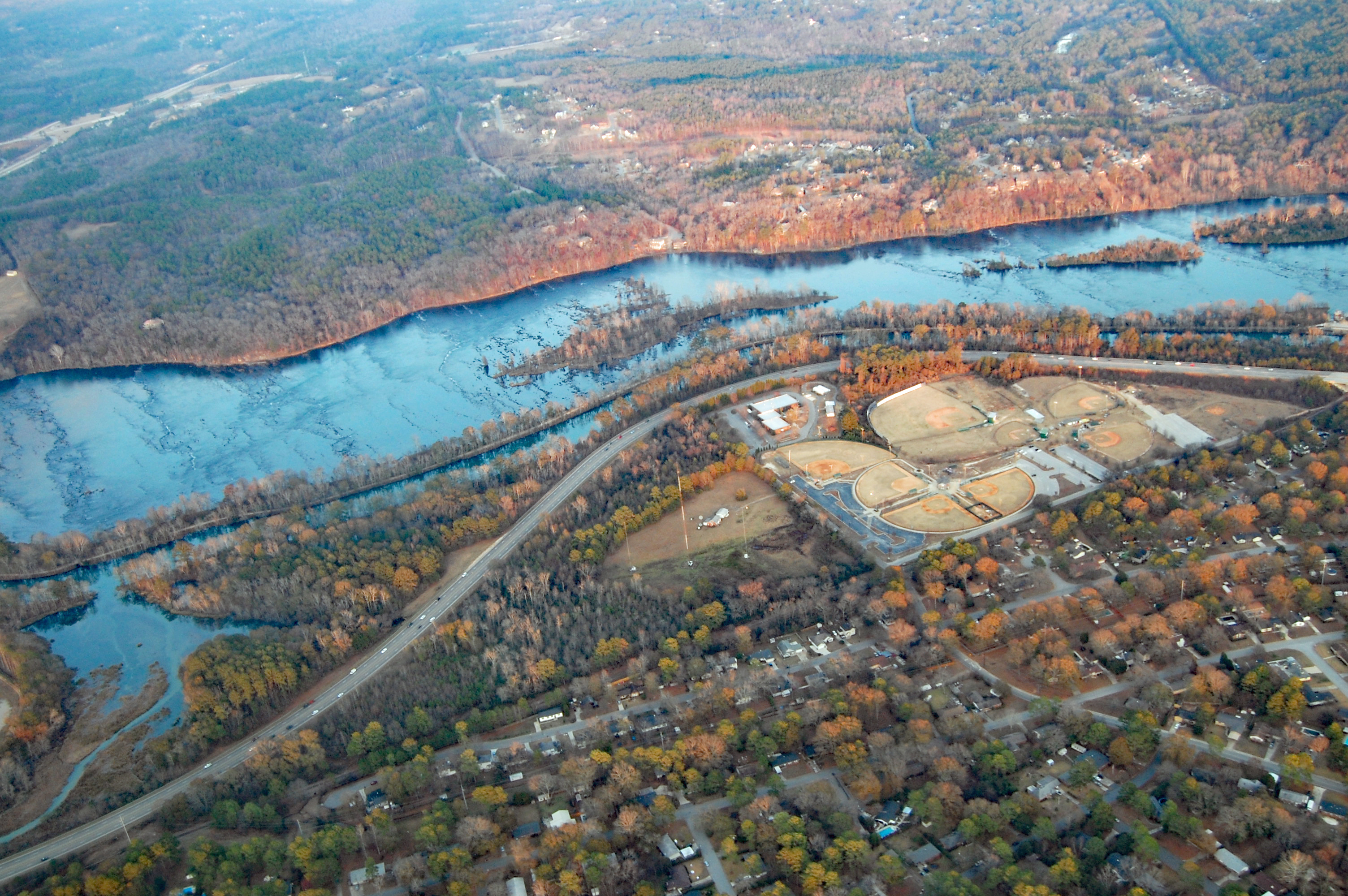 Savannah River. Aiken County, South Carolina (USA) to north. Augusta Canal (Augusta, Georgia, USA) and River Watch Parkway to south